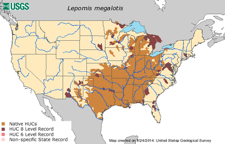 Lepomis megalotis range map